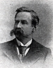 George Frederic Kribbs, US Representative from Pennsylvania